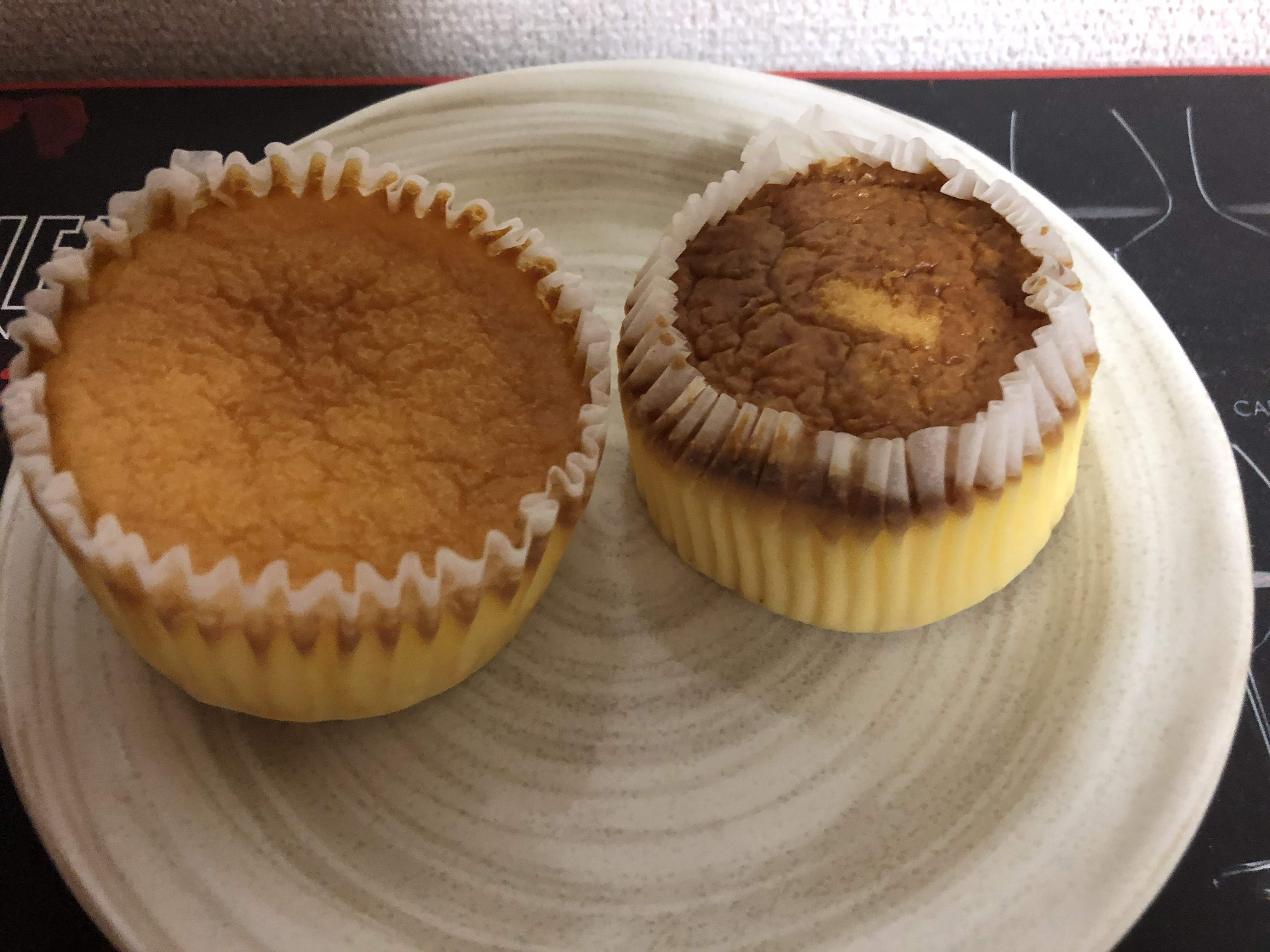 Basque-style cheesecake (left:7-Eleven right:Lawson)